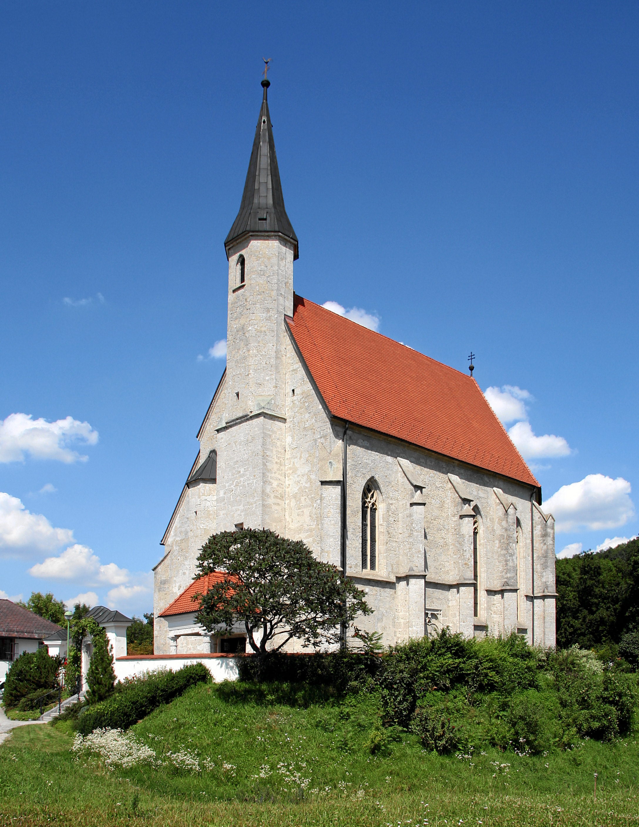 Pilgrimage church Maria Schauersberg in Thalheim bei Wels, Upper Austria